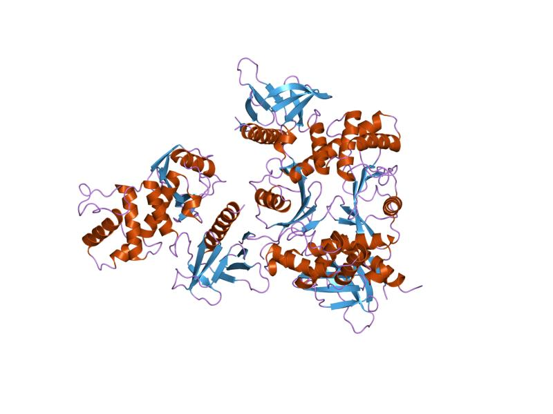 Cartoon representation of the molecular structure of protein registered with 2yvc code.